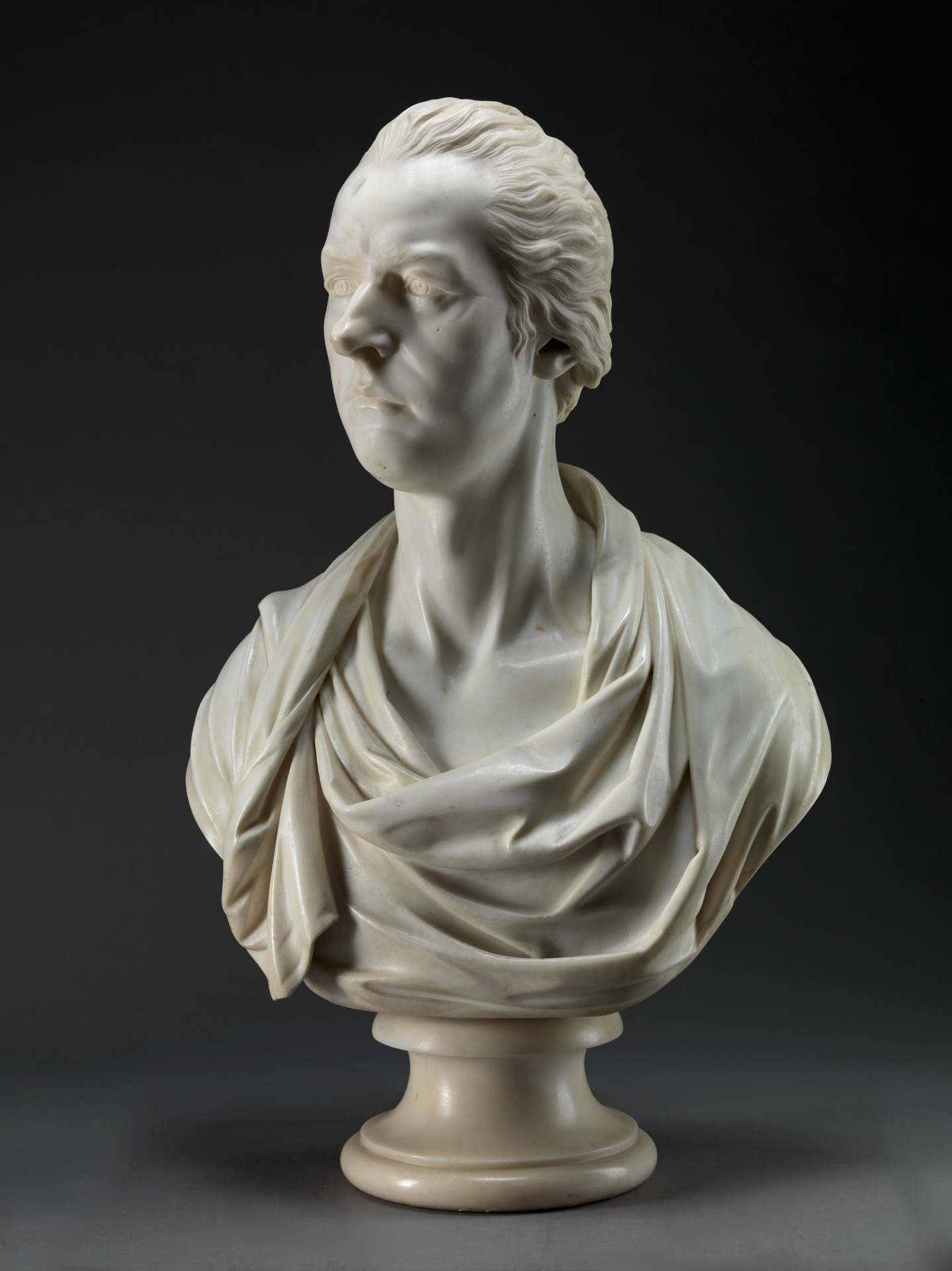 Bust of "William Pitt," by the British sculptor Joseph Nollekens (1737-1823), dated 1807. Marble. 28 1/2 inches x 18 inches x 10 inches (72.4 cm x 45.7 cm x 25.4 cm). Courtesy of the Paul Mellon Collection, Yale Center for British Art, Yale University, New Haven, Connecticut.